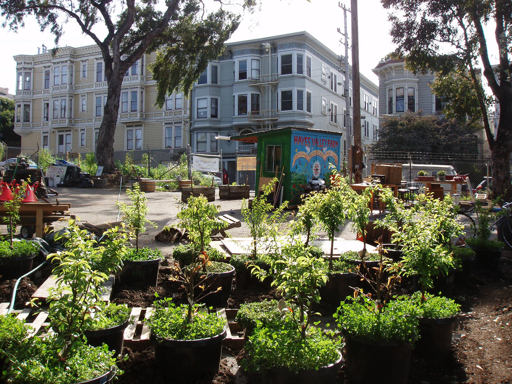 Trees are pruned for backyard orchards at Hayes Valley Farm, a community-built farm on San Francisco's former Central freeway. After the Loma Prieta earthquake of '89 damaged the onramp and offramp, the lot between Oak Street, Fell Street, Octavia and Laguna was vacant for 21 years before the City authorized the site for interim use. The farm is now a permaculture demonstration site. All the soil has been upcycled from the urban waste stream. The farm has used 1,000 cubic yards of horse manure, 2,000 cubic yards of woodchips, and 100,000 pounds of cardboard to cover over an acre of its 2.2 acre lot.